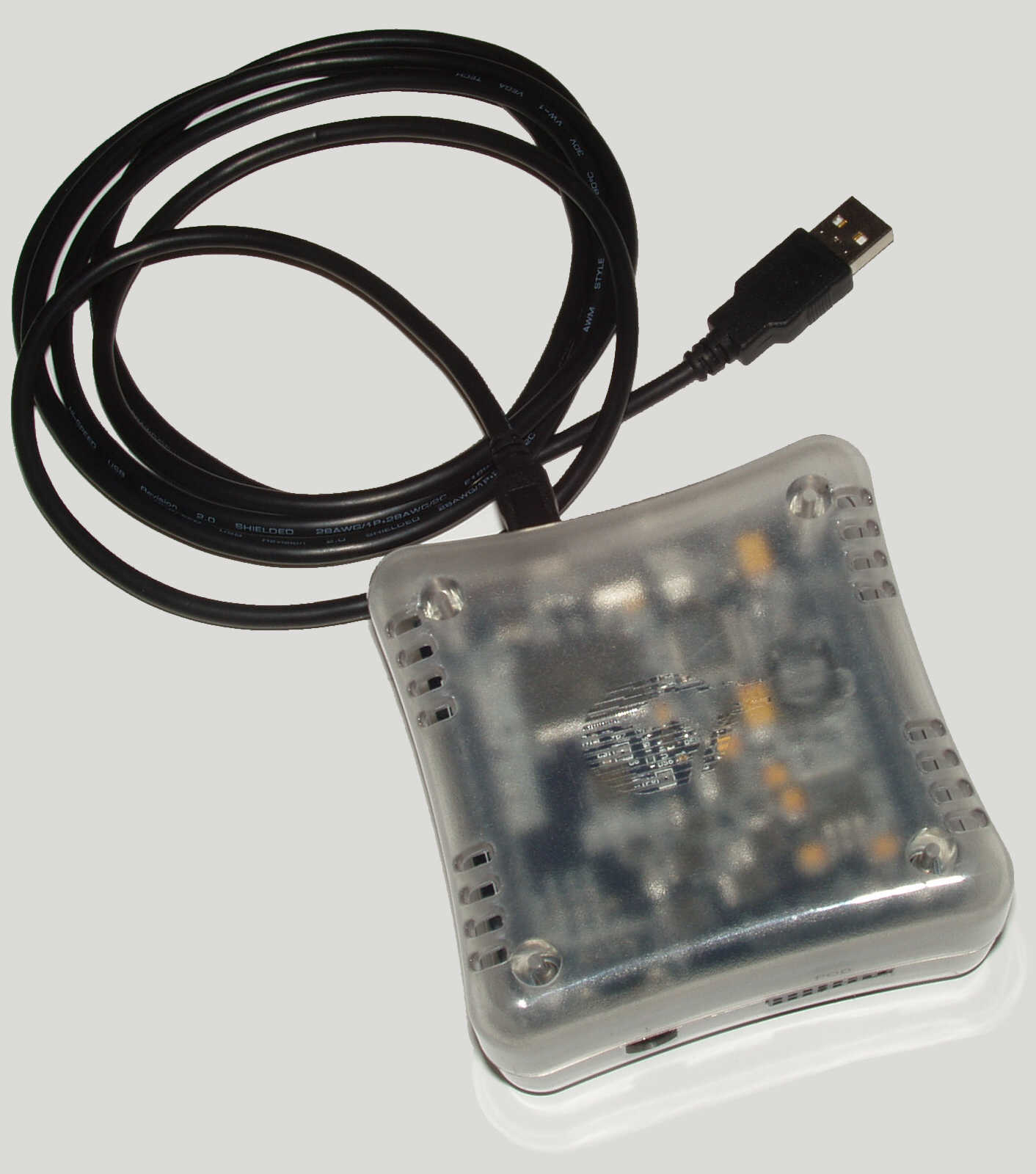 Cypress emulator ICE-Cube for PSoC microcontroller